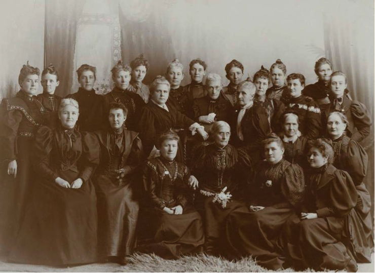 Western suffragists, including Utahns Martha Hughes Cannon, Sarah M. Kimball, Emmeline B. Wells, and Zina D. H. Young, pose with national suffrage leaders Susan B. Anthony and Anna Howard Shaw at the 1895 Rocky Mountain Suffrage Meeting in Salt Lake City